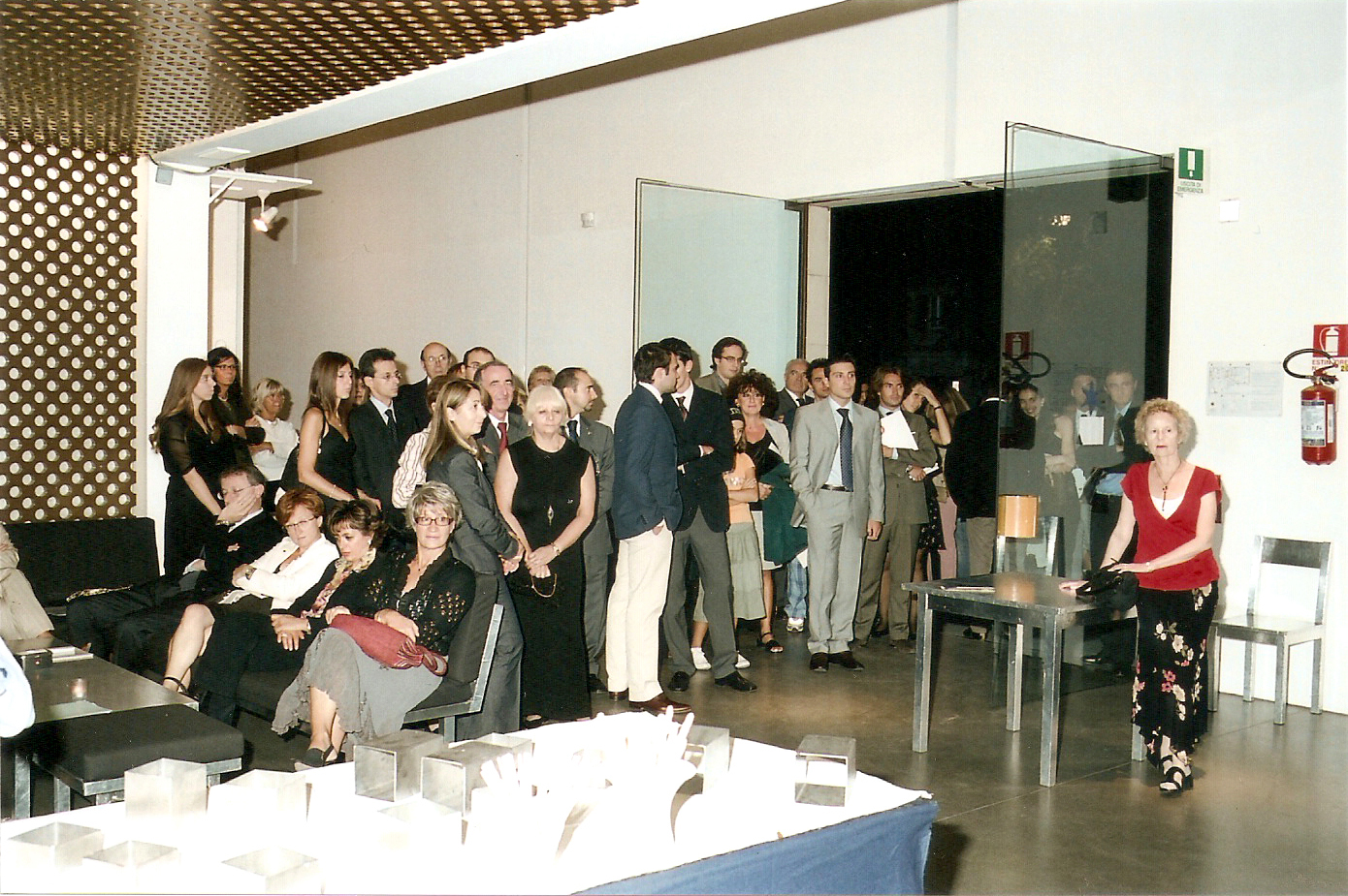 Aeronwy Thomas' poetry reading in Torino, Italy